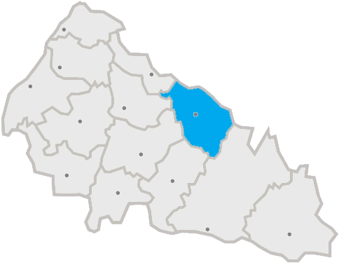 Ukraine, Oblast Transcarpathia, Rajon Mizhhiria highlighted